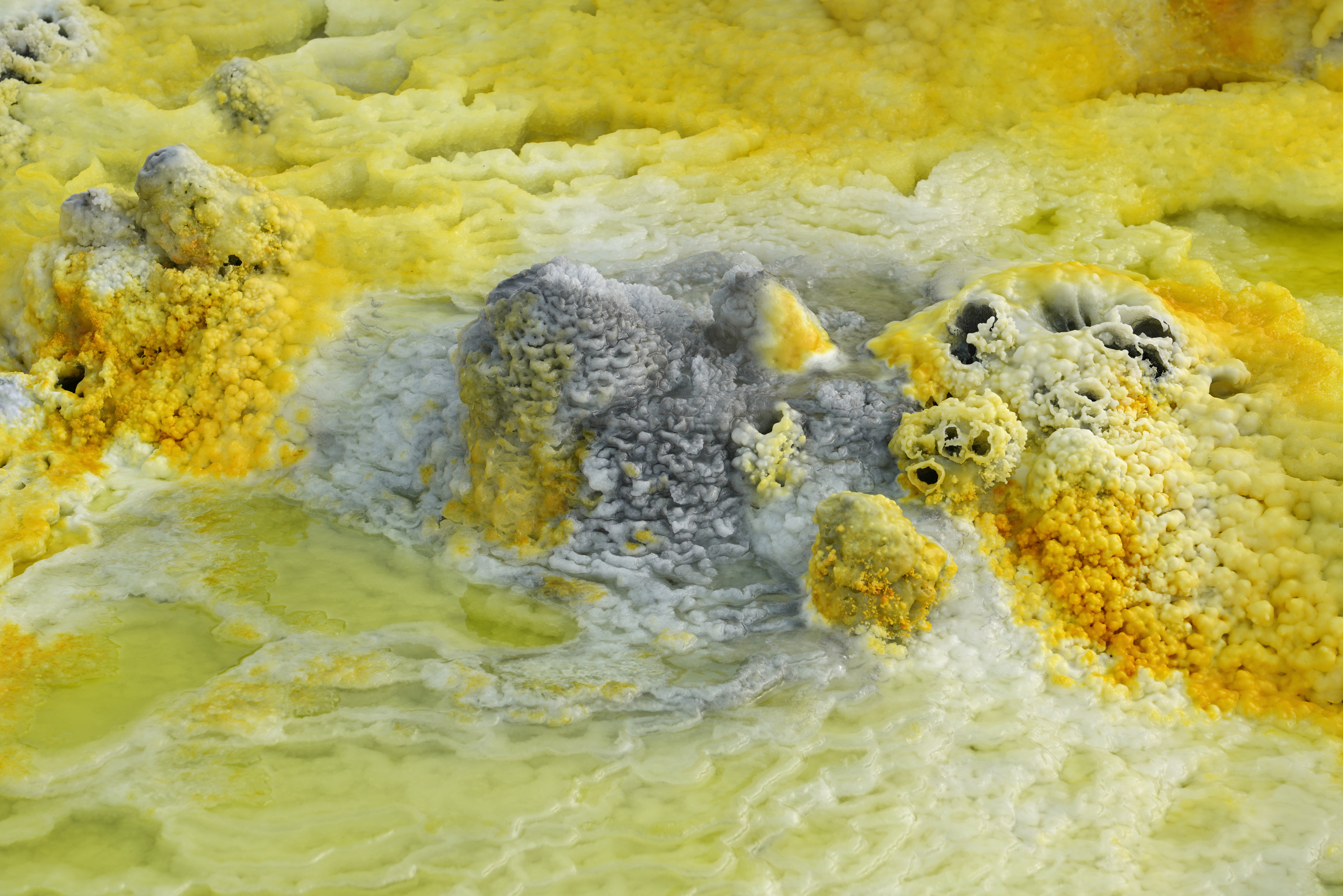 Landscape at Dallol volcano, Afar Region, Ethiopia